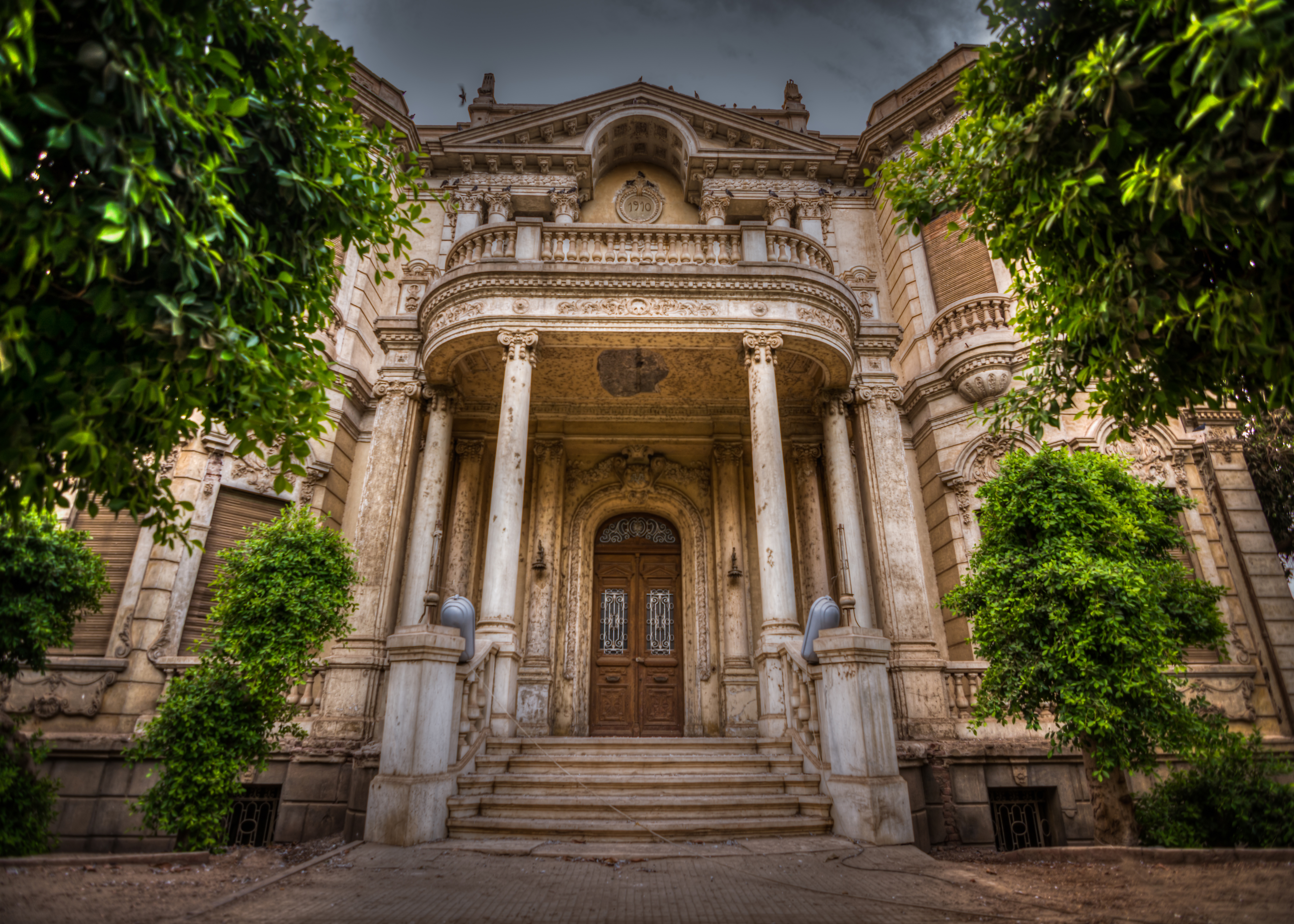 Alexan Pasha Palace in Assiut, which dates back to its inception in 1910